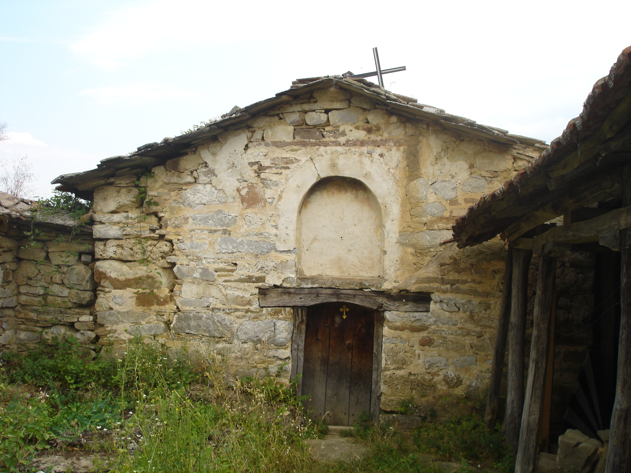 Medieval church St. George in Gradovci, Macedonia